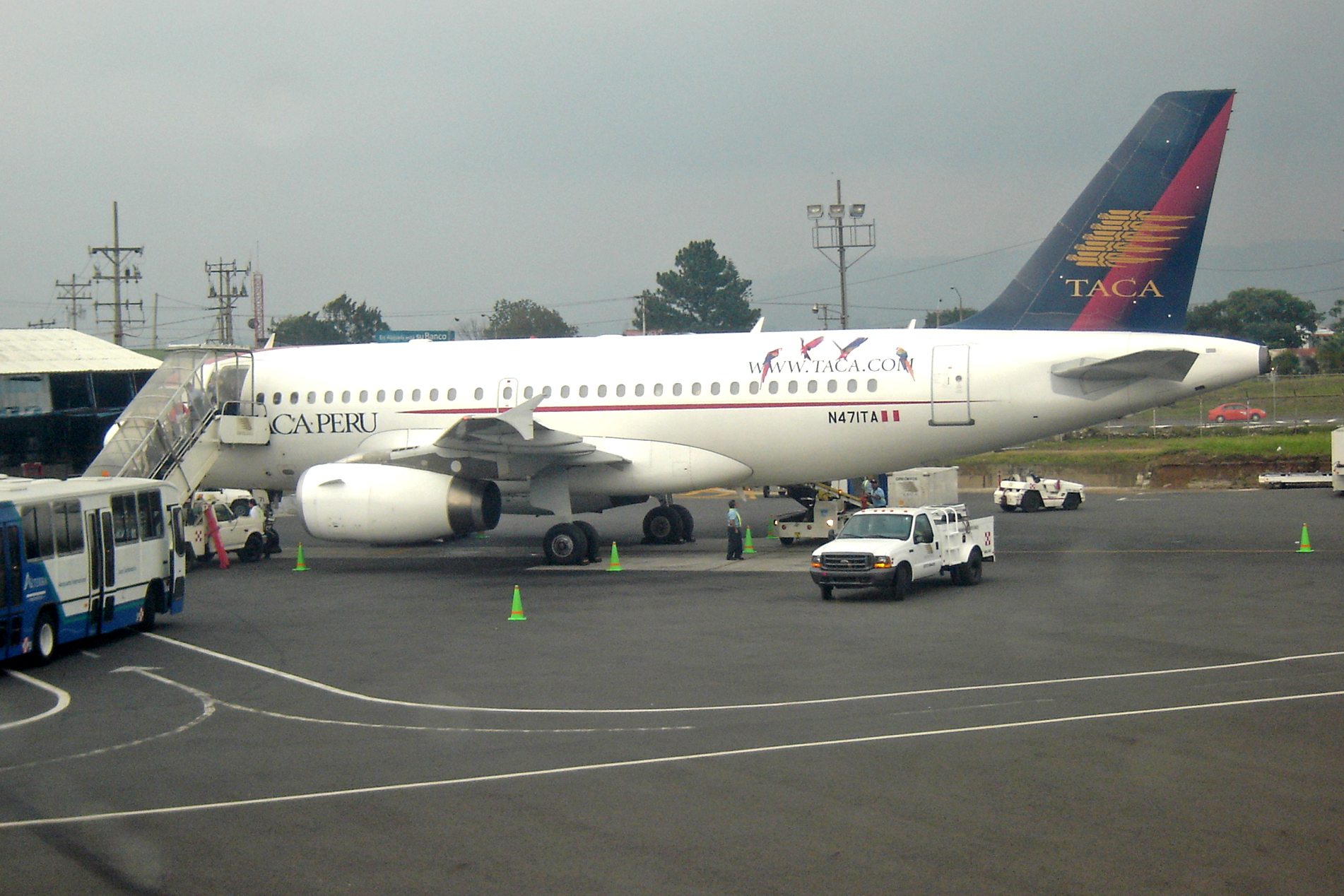 TACA-PERU Airbus at Juan Santamaria International Airport (SJO), Costa Rica